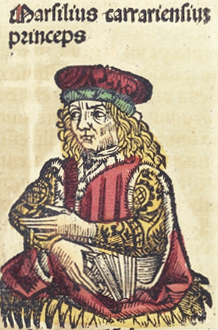 Woodcut from the Nuremberg Chronicle (Latin edition in Sao Paulo)